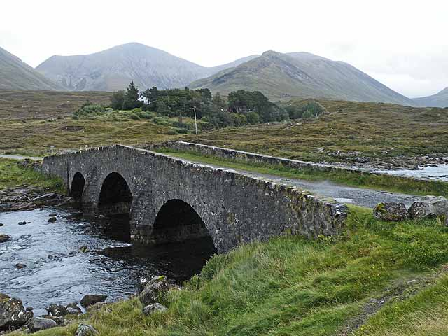 Old Sligachan Bridge The Red Cullin in the background.